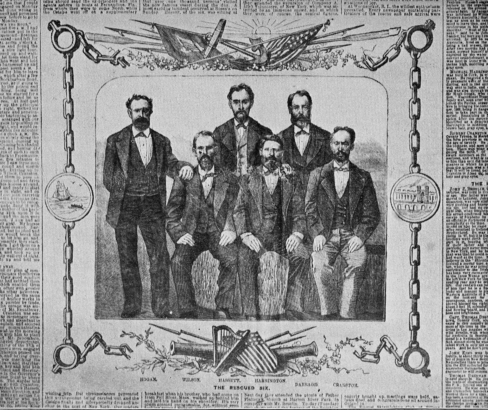 Scan from book 'The Catalpa Expedition'